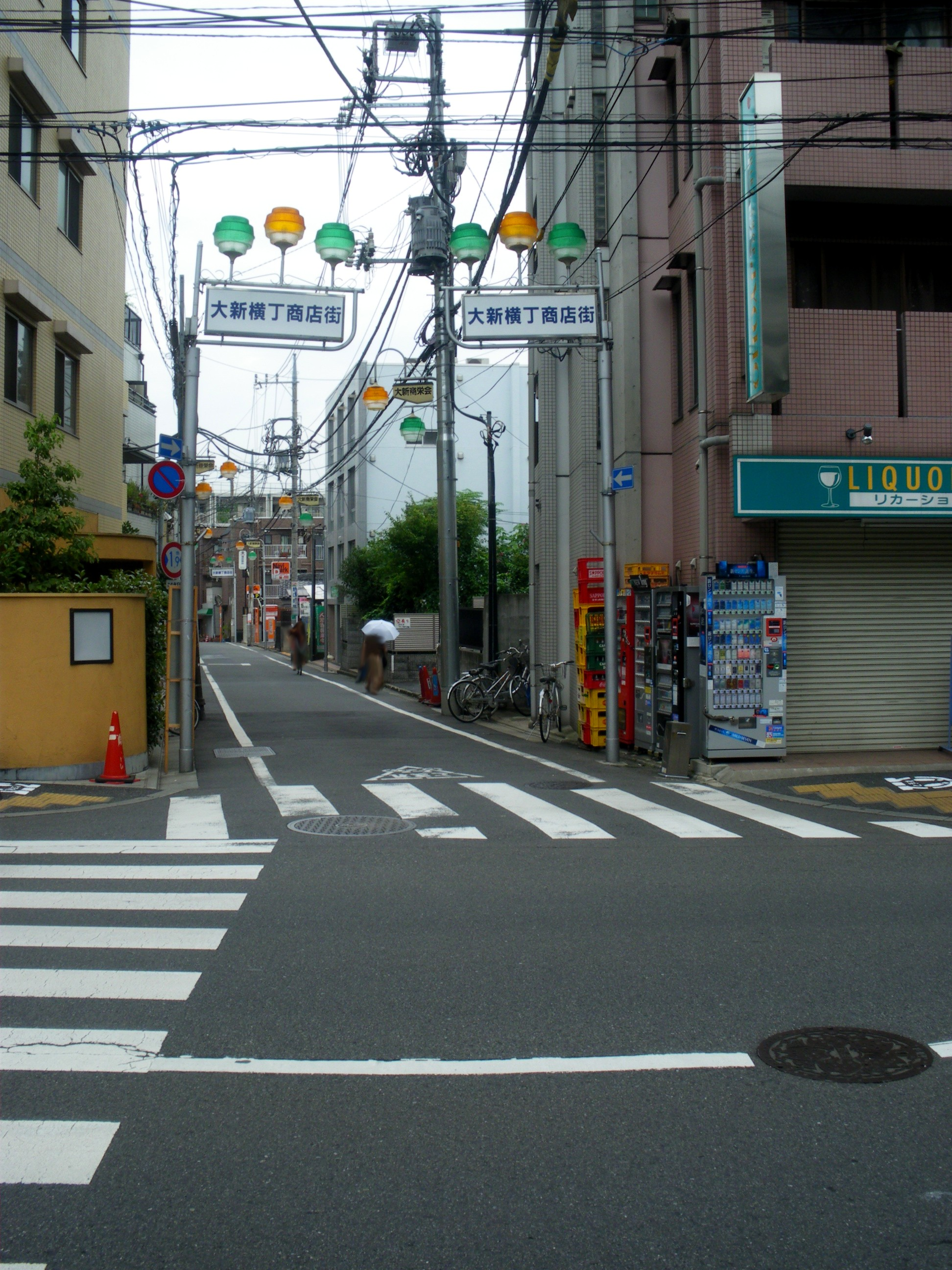 Dashin Yokocho(Nogata,Nakano,Tokyo)